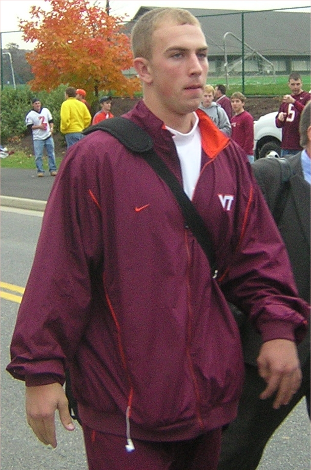 Virginia Tech starting quarterback Sean Glennon at the walk before the 2006 game against Clemson